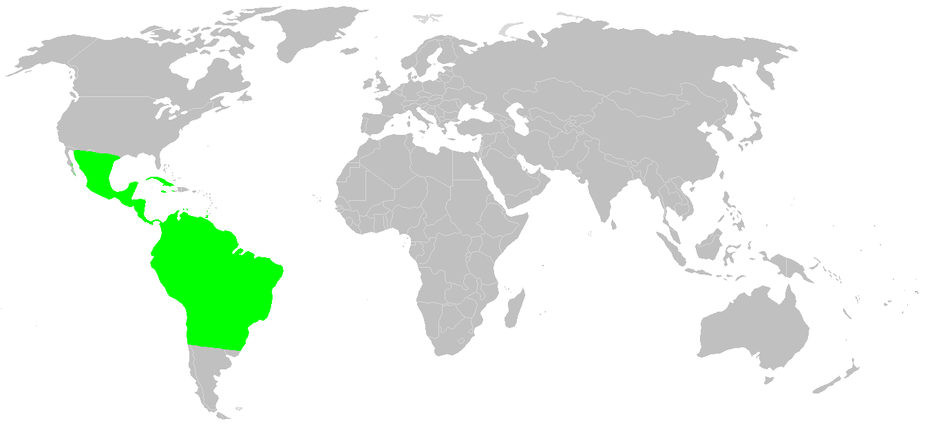 Known world distribution of Agrius cingulatus (Lepidoptera, Sphingidae), after rough data from [1].